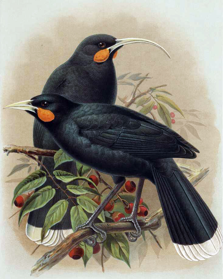 Original caption: Huia (male and female) Heteralocha acutirostris (three-fifths natural size)An illustration of a pair of Huia, a bird which went extinct in 1907 (approx). The bird in the background with the long curved beak is an adult female and the bird in the foreground is an adult male. This image was published in Buller, Walter Lawry (1888) "Huia (Heteralocha acutirostris): male and female" in A History of the Birds of New Zealand, Volume 1 (2nd ed.), London: Self-published, pp. Plate II Retrieved on 7 September 2010.